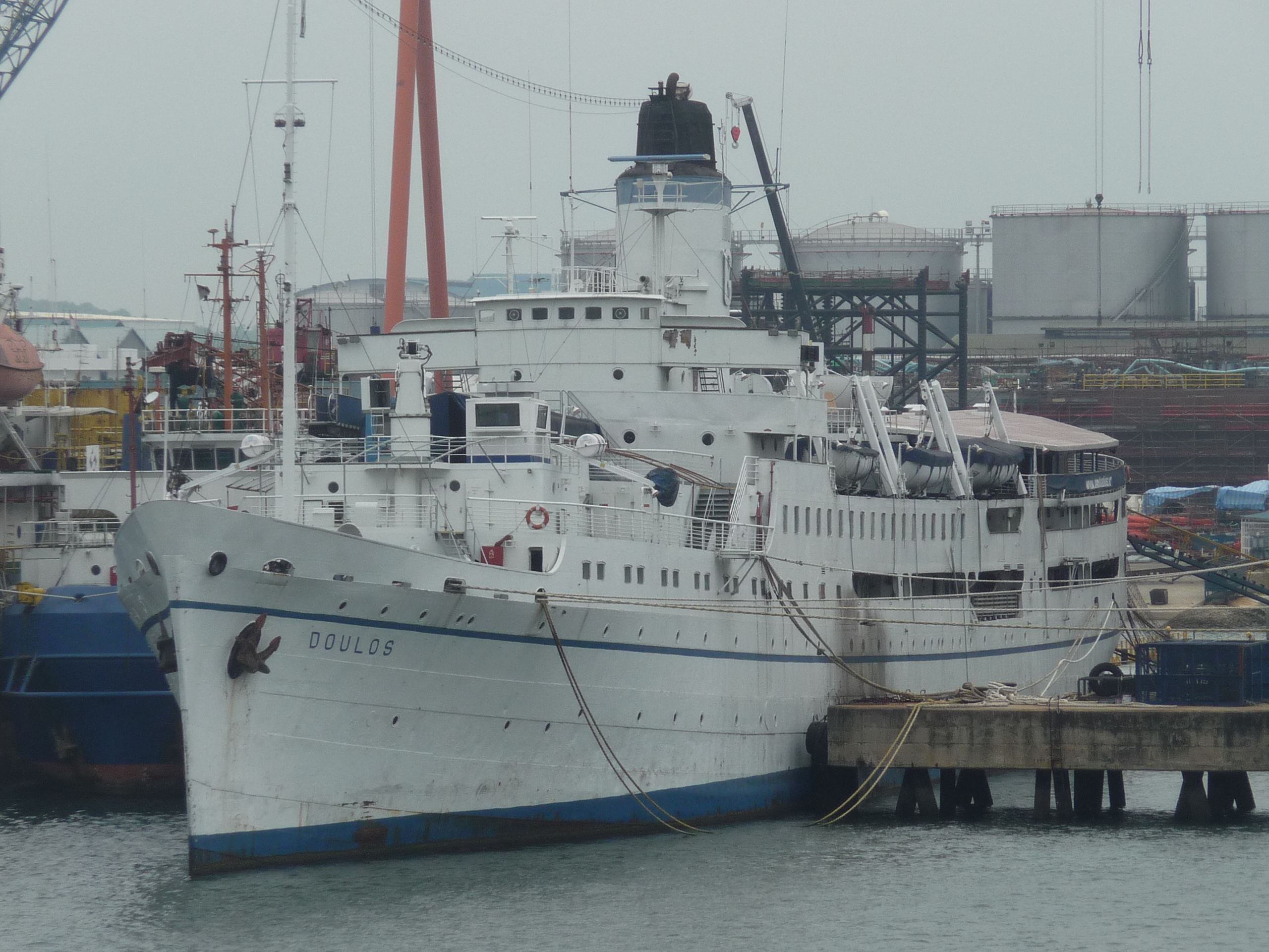 The cruise ship Doulos Phos laid up at the shipyards of Singapore on October 13, 2012.